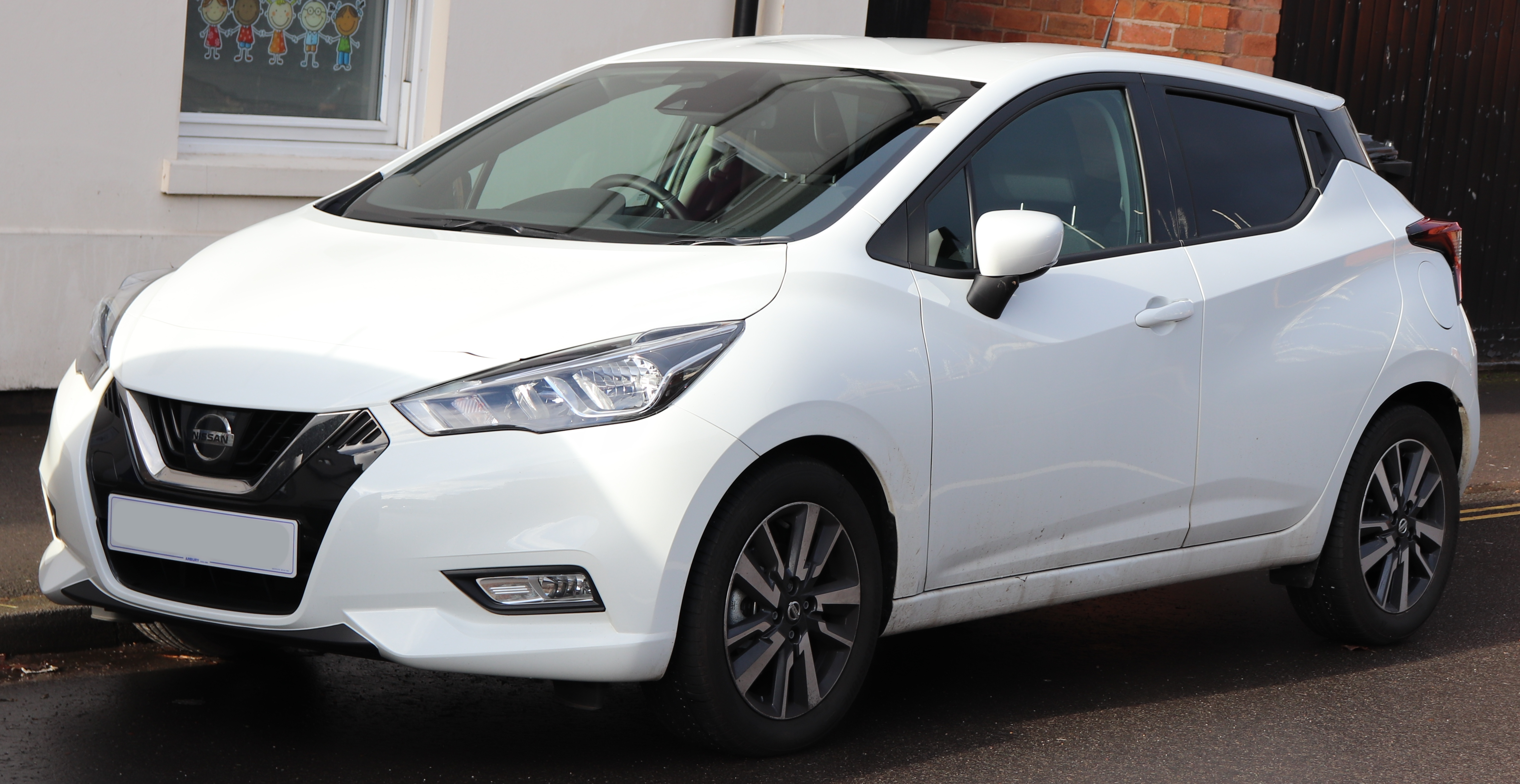 2017 Nissan Micra N-Connecta IG-T 900cc Front Taken in Leamington Spa